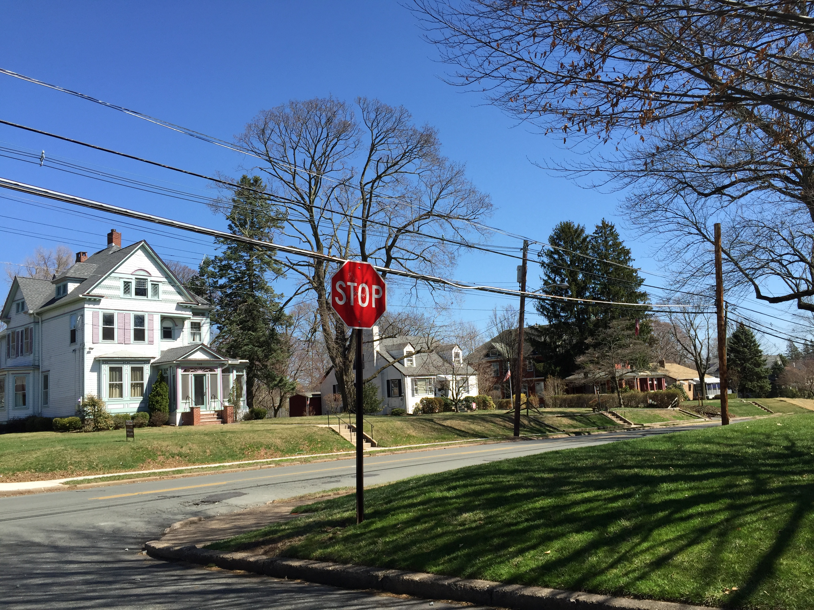 Homes along Grand Avenue in the West Trenton section of Ewing, New Jersey